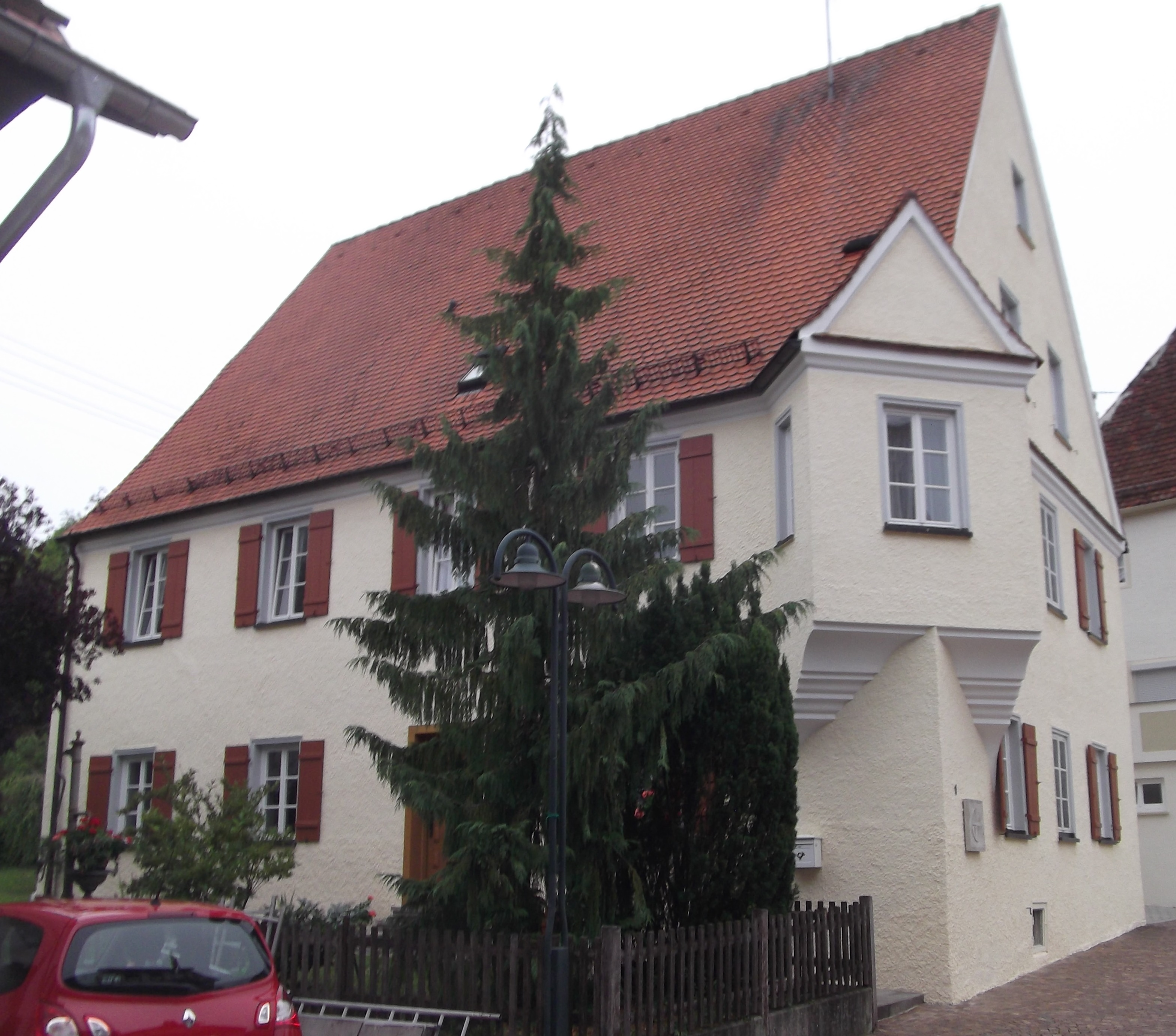 Former curate house of the Westernach noble family in Schelklingen, built in 1599, from Southwest